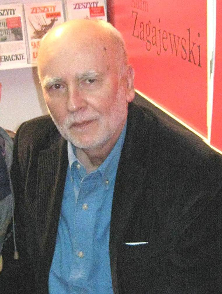 Polish poet, novelist, and essayist Adam Zagajewski.